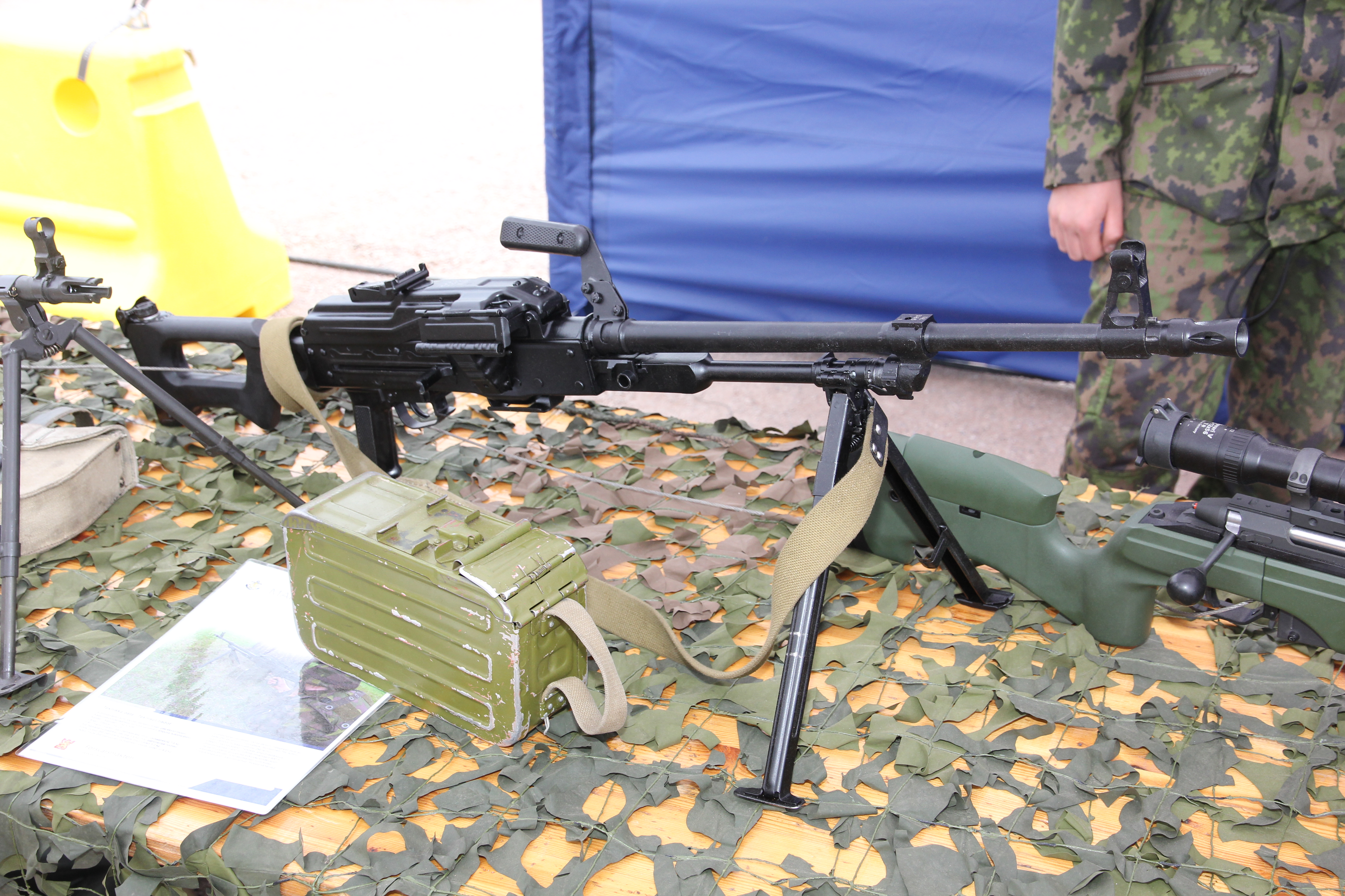 7.62 mm PKM machine gun used by Finnish military on display during the Finnish Navy 2012 anniversary.